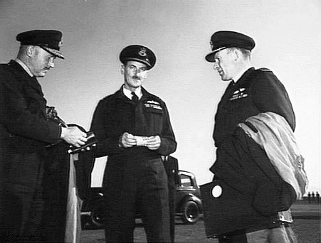 Iwakuni, Japan. Visiting VIPs, Air Vice-Marshal J. E. Hancock, OBE DFC, and Group Captain C. T. Hannah, OBE (DPS), are seen chatting with OC 91 (C) Wing, RAAF, Gp. Capt. A. G. Carr, DFC, (centre) on their arrival in Japan.